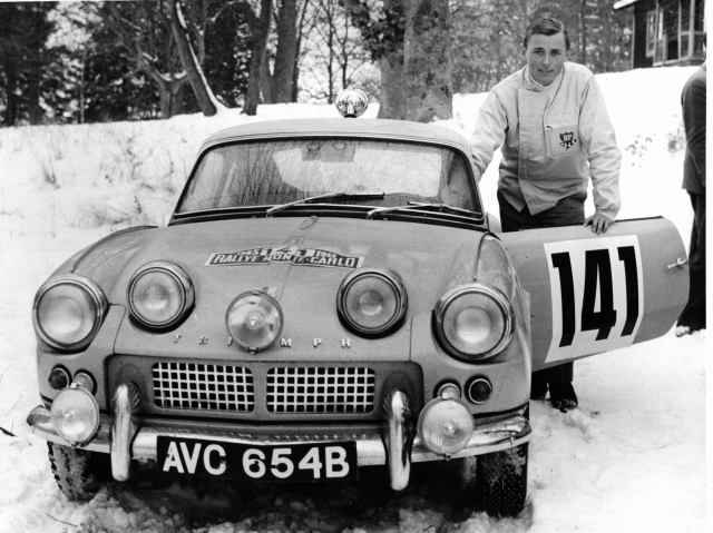 Simo Lampinen participating Rallye Monte Carlo 1965.